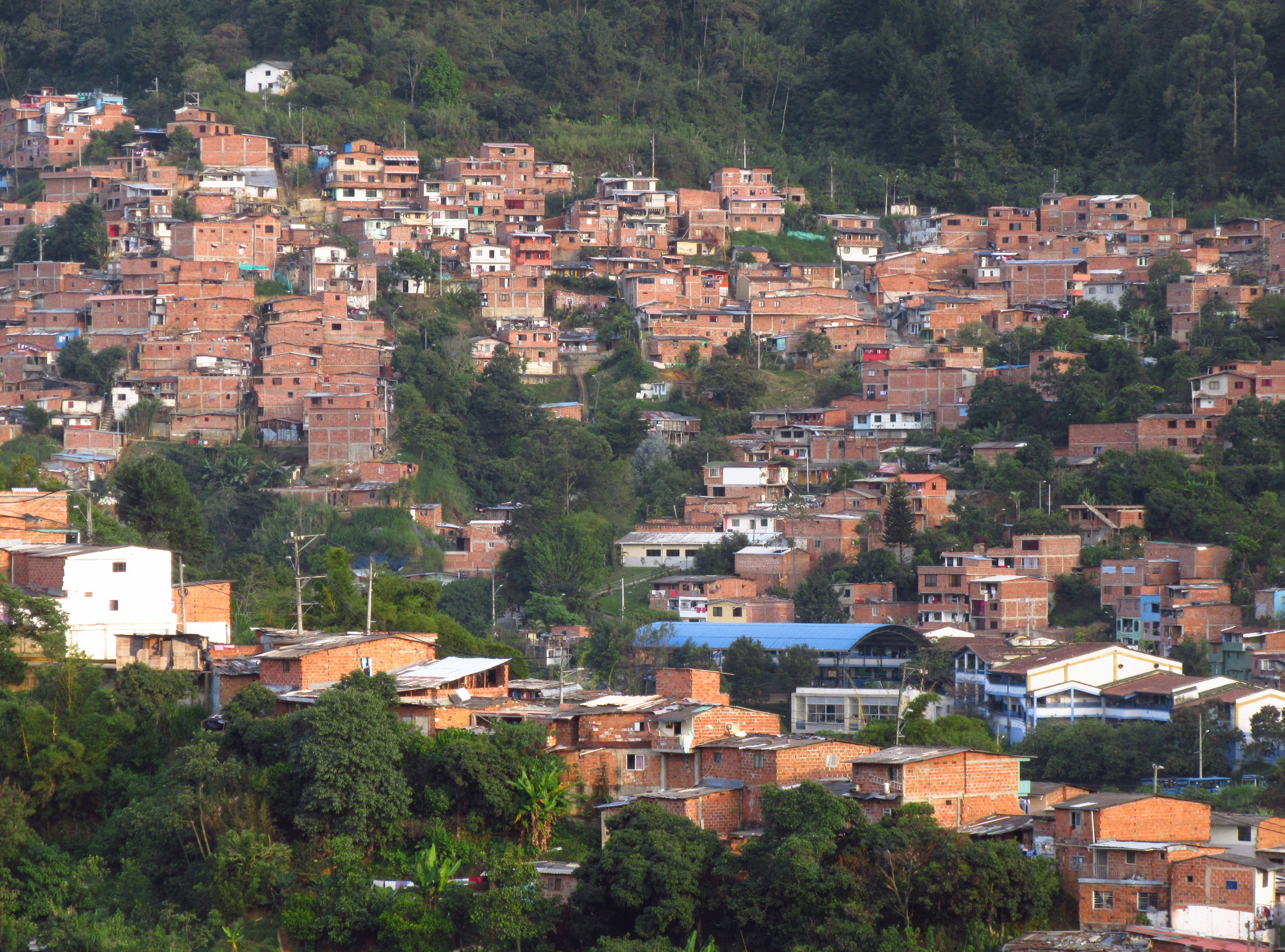 Medellín neighborhoods La Sierra and Las Estancias